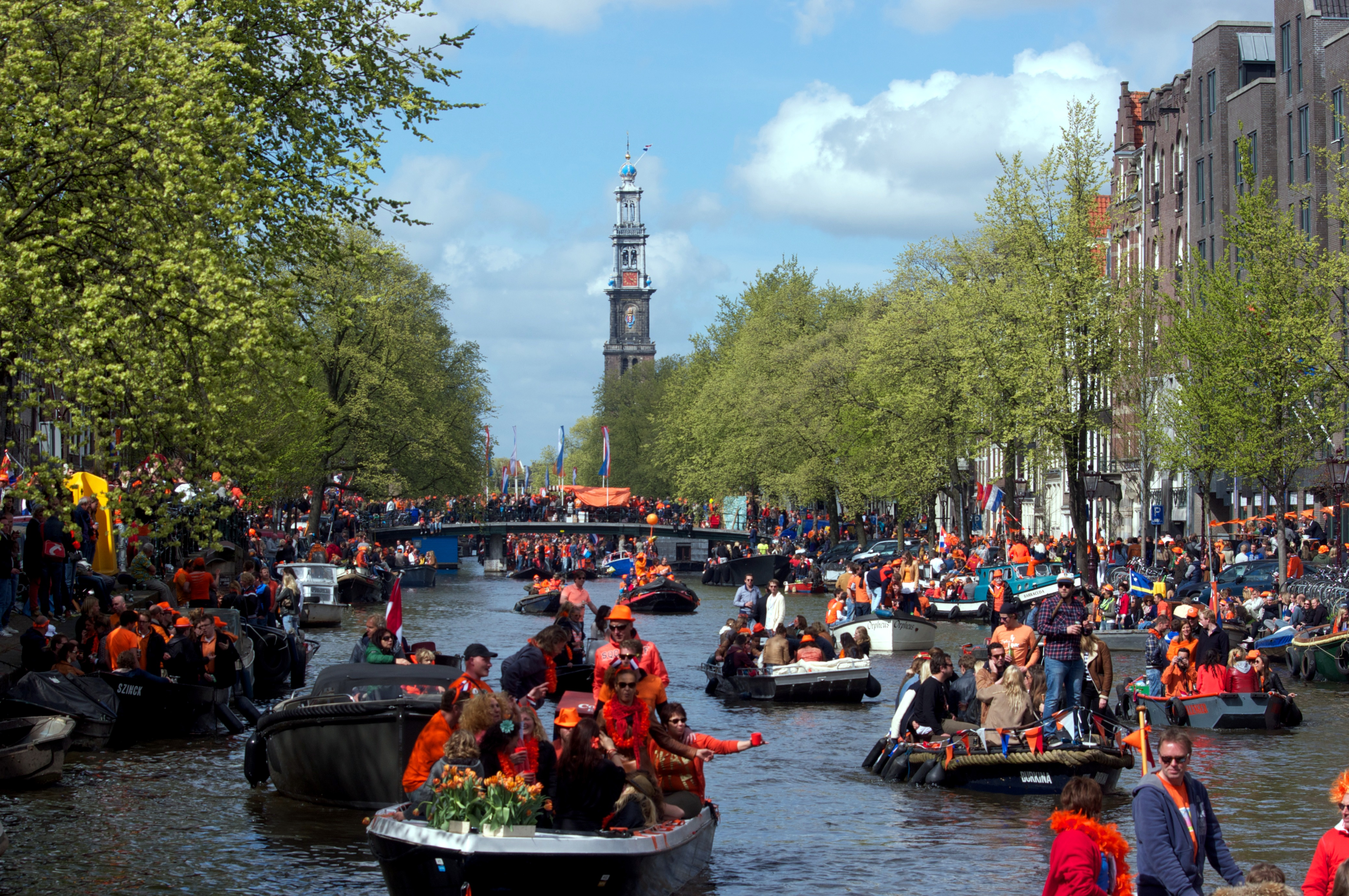 People at the Queen's Day 2013 in Amsterdam